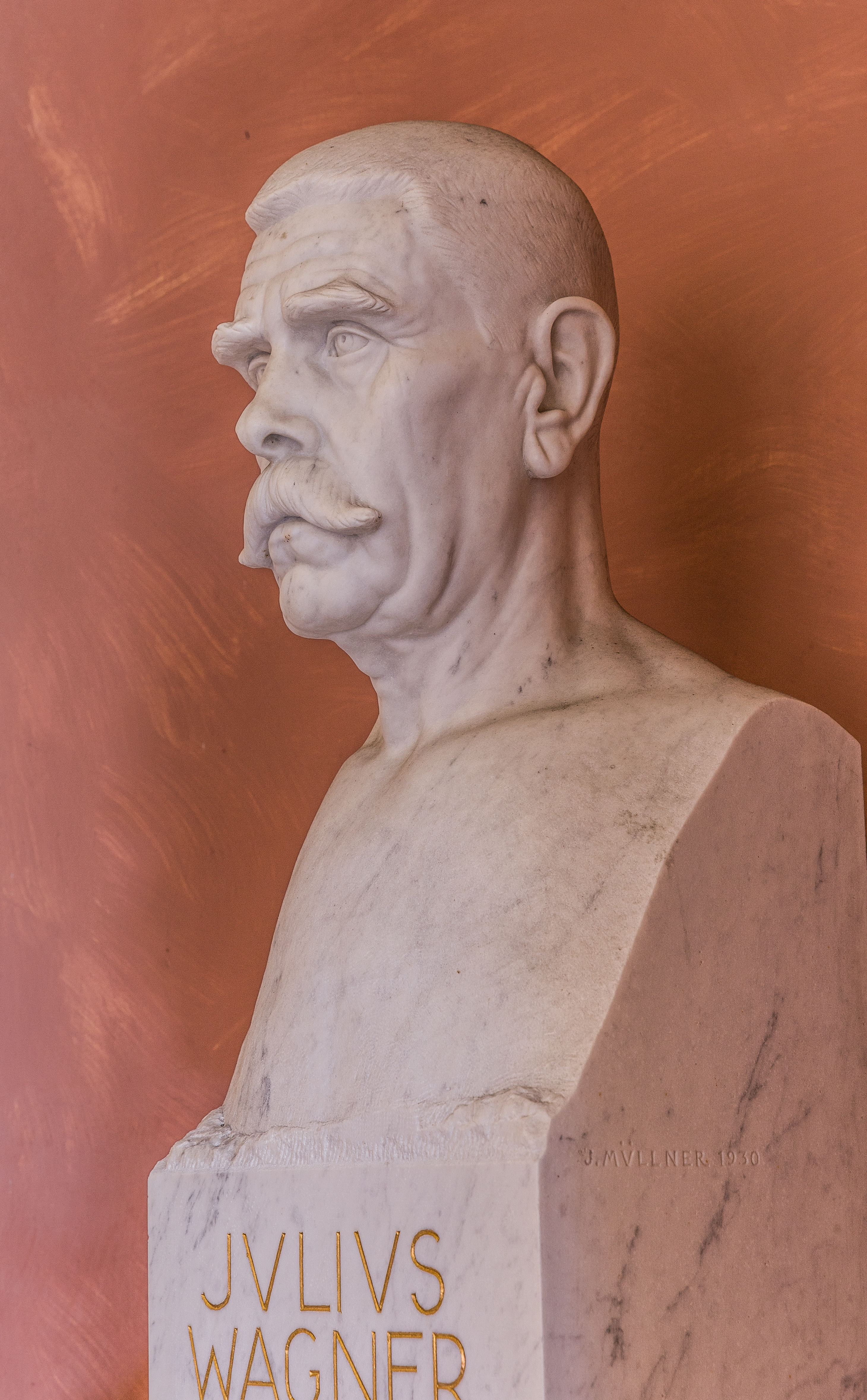 Julius Wagner-Jauregg (1857-1940), bust (marble) in the Arkadenhof of the University of Vienna, (Maisel# 87). Artist: Josef Müllner (1879-1969), unveiled 1951 Anton Hanak (1875–1934) DescriptionAustrian sculptorDate of birth/death 22 March 1875 7 January 1934 Location of birth/death Brno ViennaWork location Vienna Authority control : Q32370 VIAF: 72188567 ISNI: 0000 0000 6678 7070 ULAN: 500054670 LCCN: n84188565 Open Library: OL1838797A WorldCat creator QS:P170,Q32370